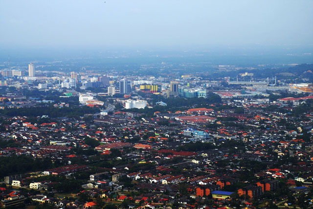 A clear skyline view of Kuantan from Bukit Pelindung.